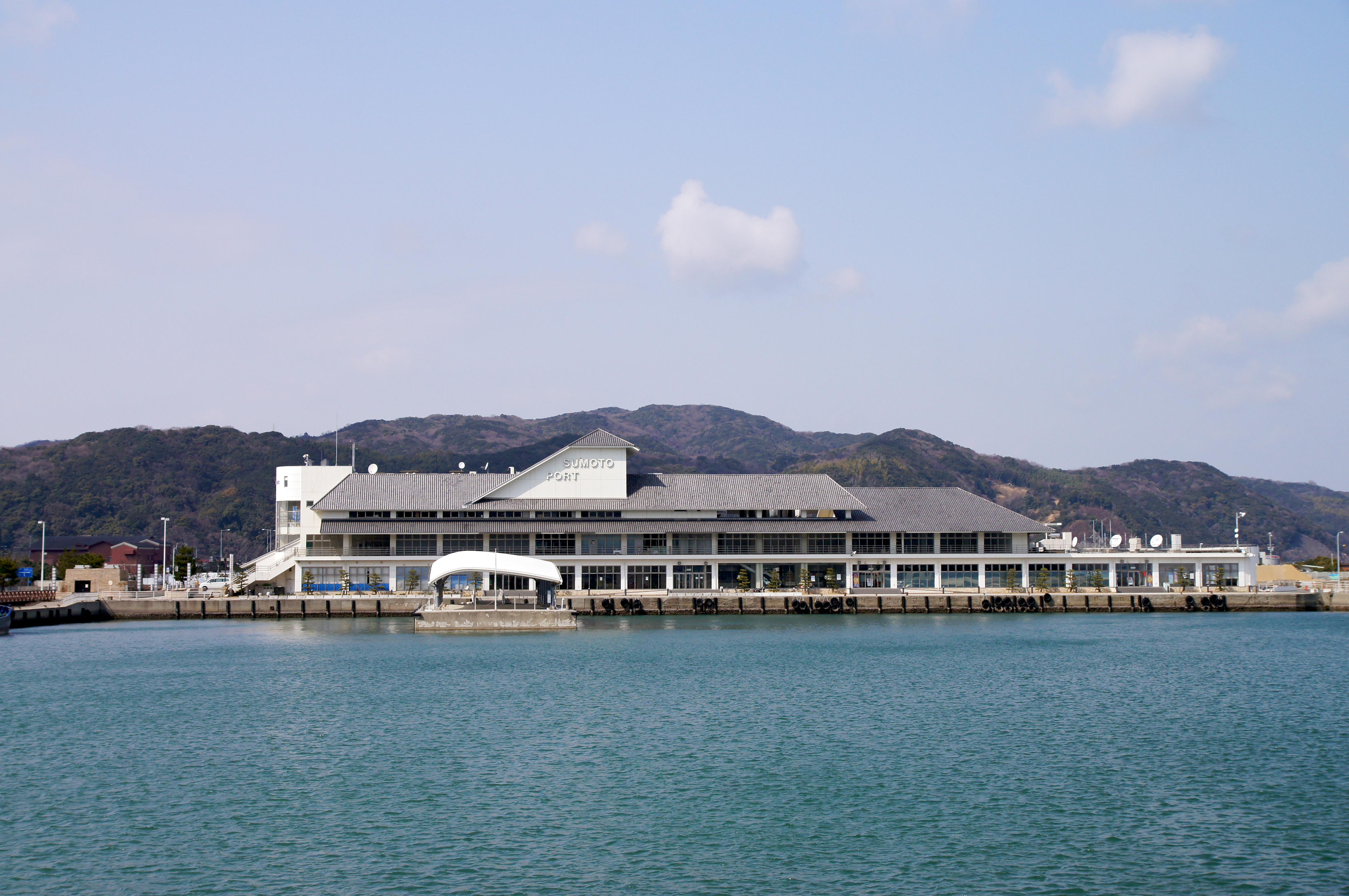 Sumoto Port in Sumoto, Hyogo prefecture, Japan.